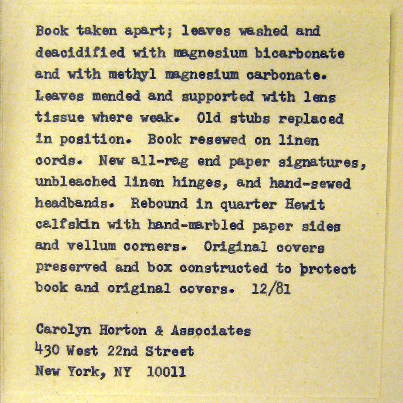 Conservator's statement attached to the new binding holding Drexel 4175, a music manuscript which is an important source for seventeen-century English song, belonging to the New York Public Library.